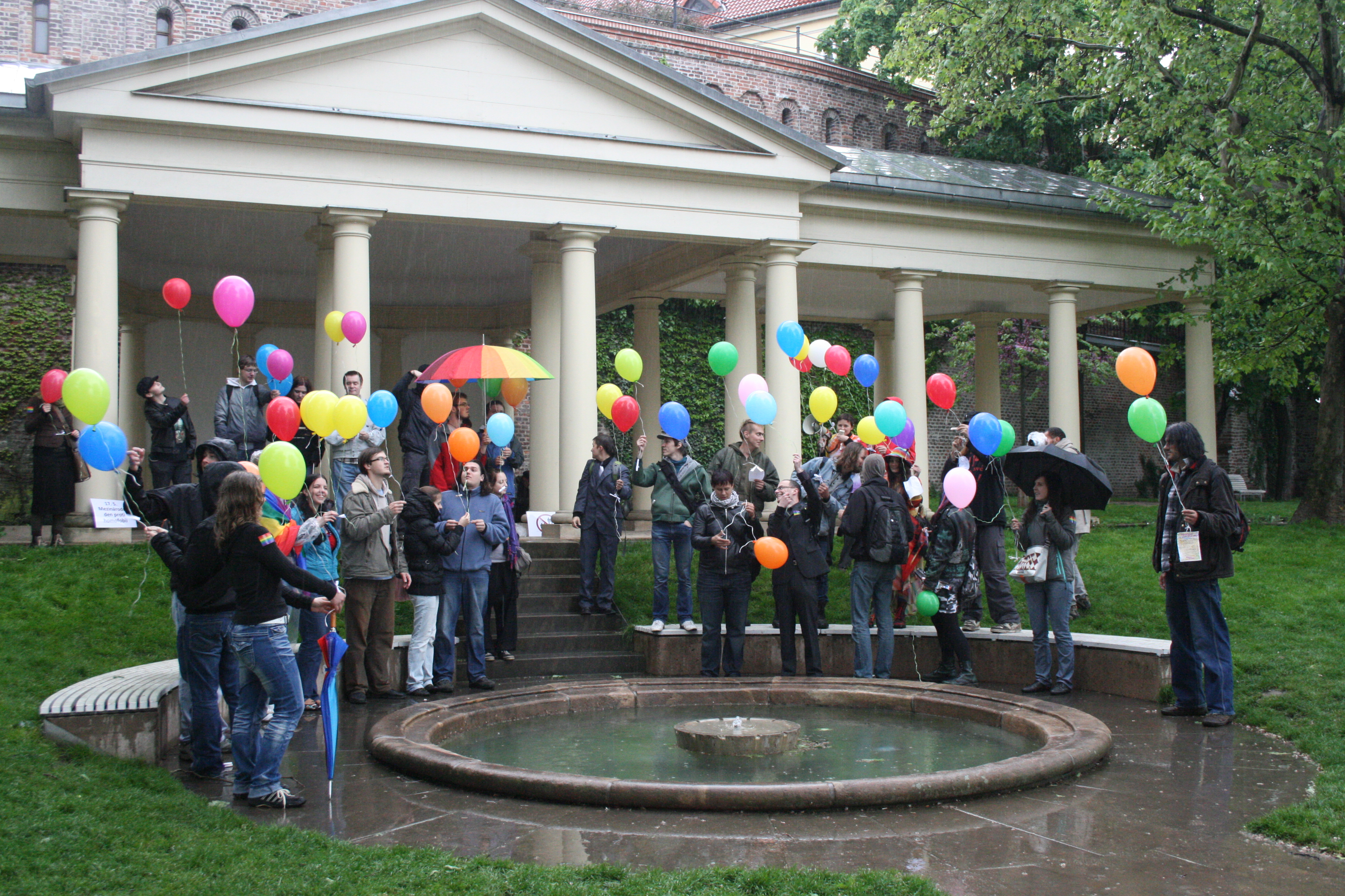 International Day Against Homophobia 2010 - Rainbow Flash in Brno, Czech Republic.